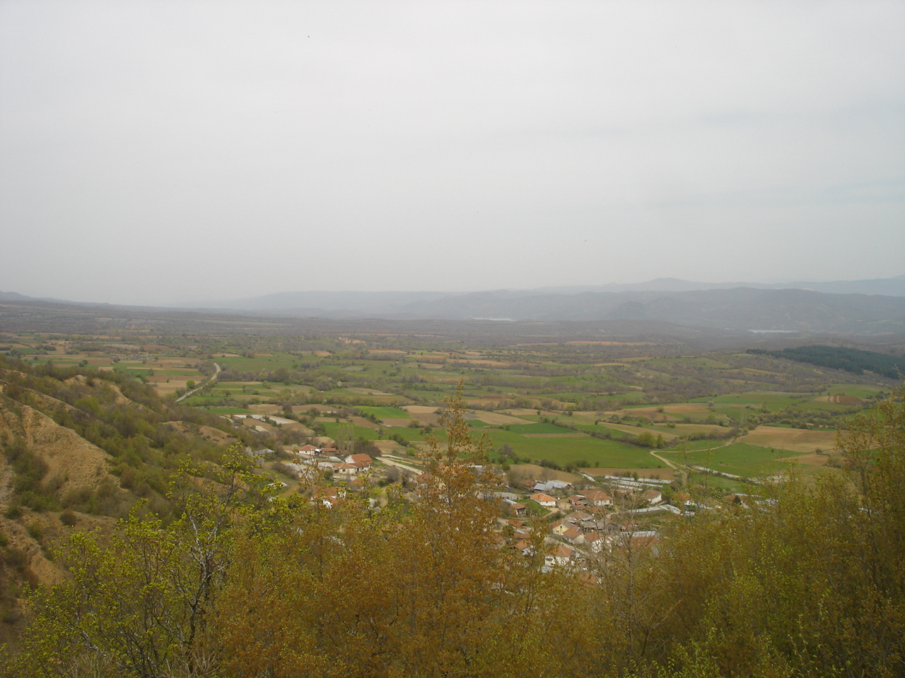 Lakavica valley seen from the slopes of Serta mountain above village of Lubnica, near Radovish, Macedonia